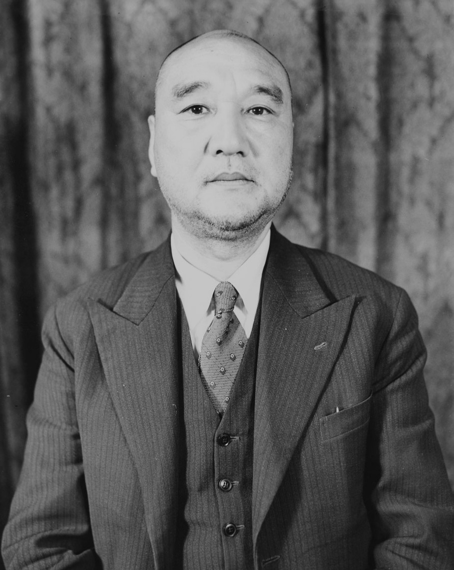 Kenryō Satō during the trial for war crimes at International Military Tribunal for the Far East